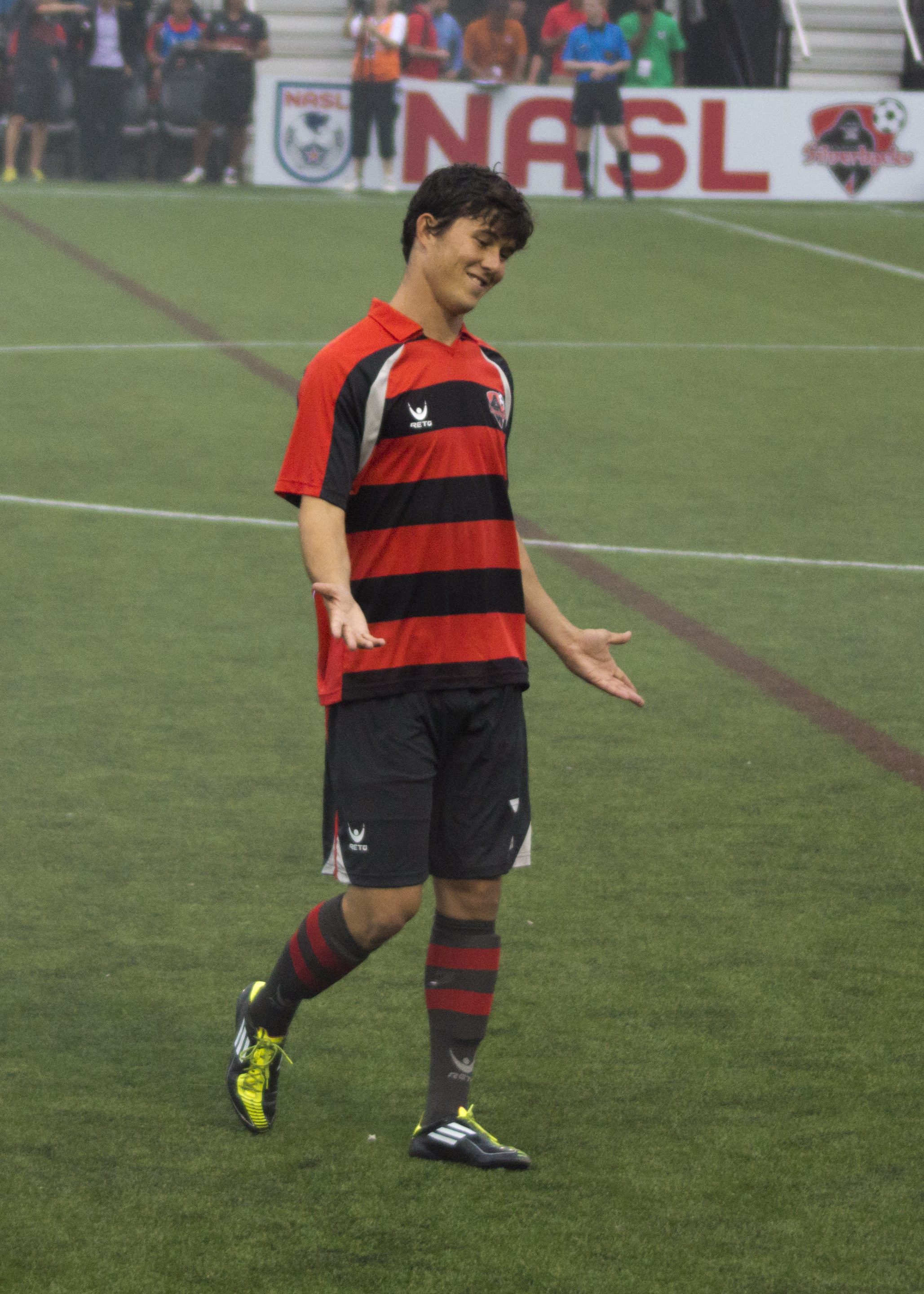 2012-04-21 - Atlanta Silverbacks - 04 - Shane Moroney